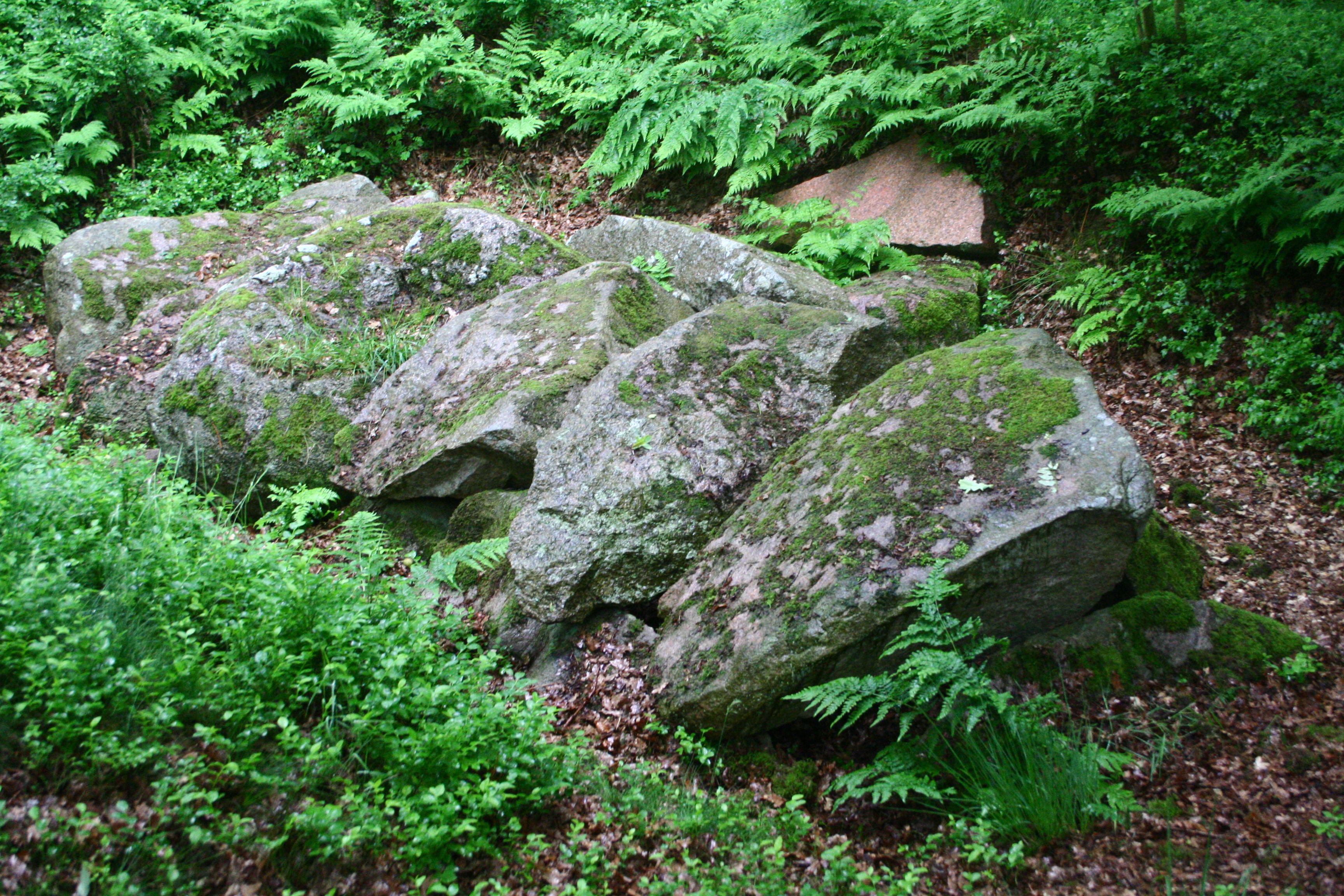 Megalithic tomb Hammah 3